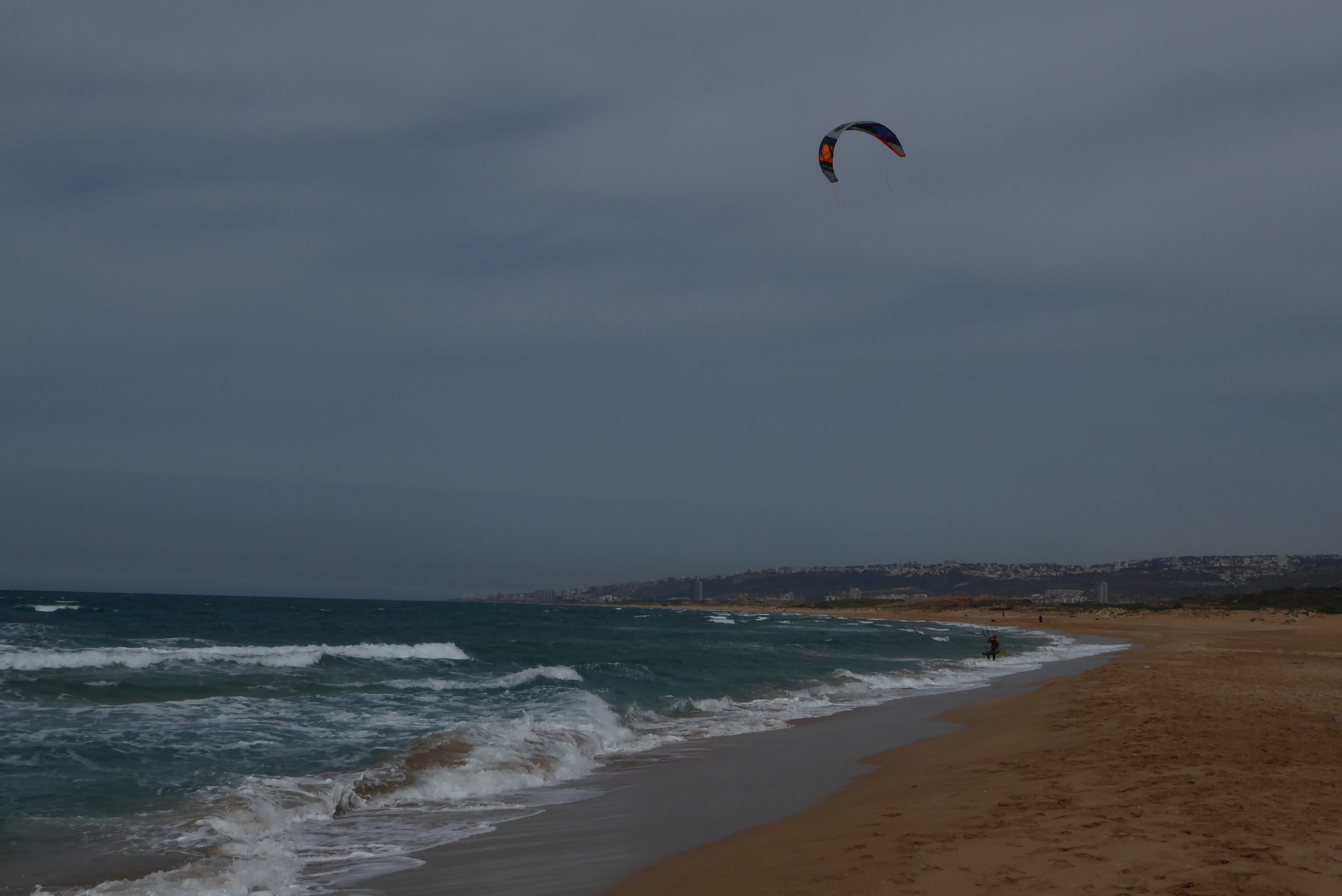 Beaches of Israel